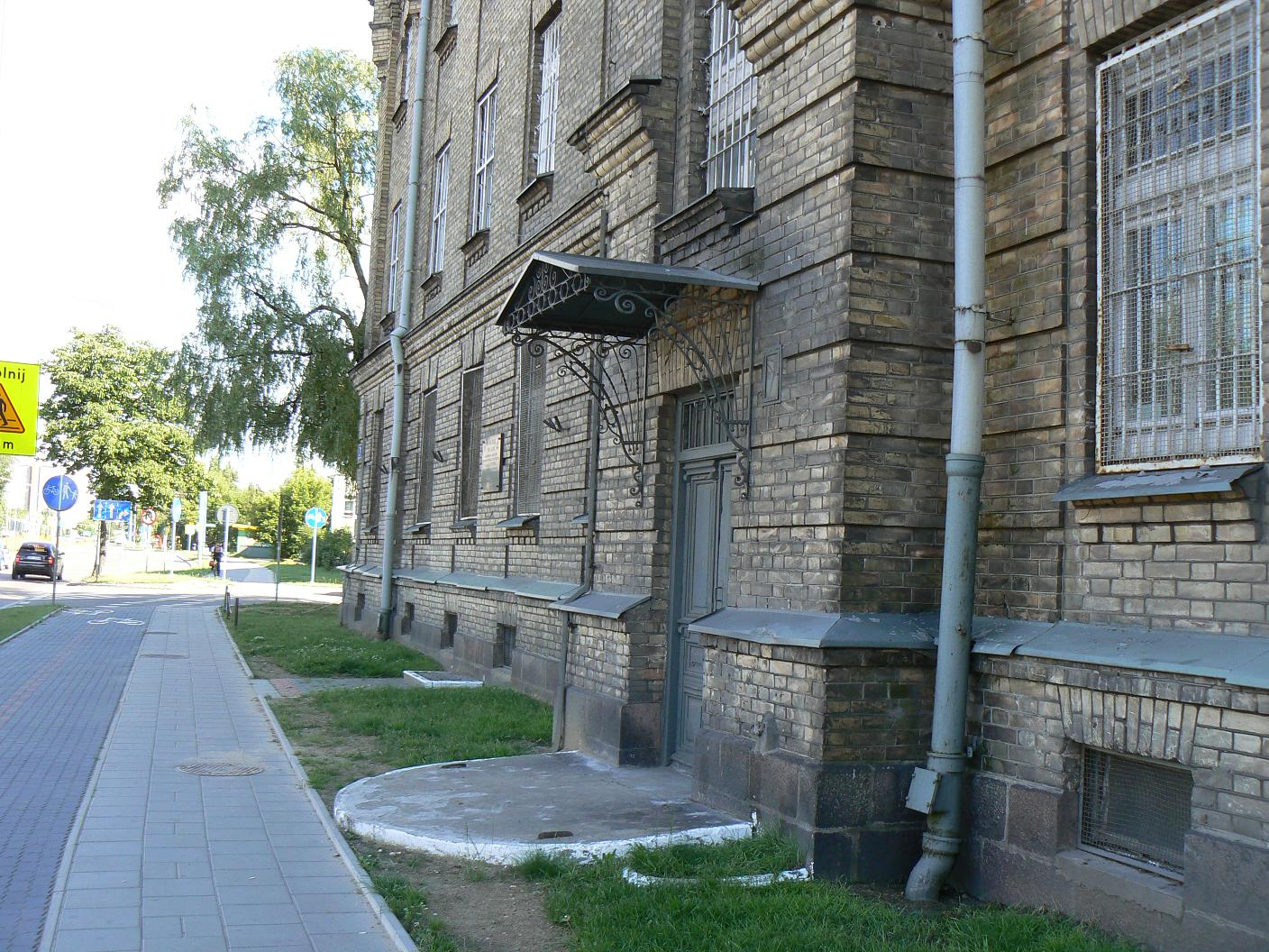 Prison in Białystok